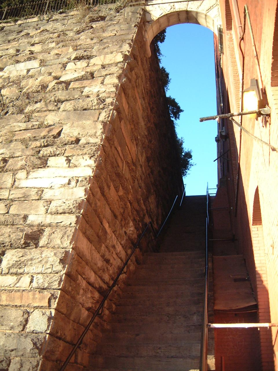 The Exorcist Steps in Georgetown, Washington D.C., United States.